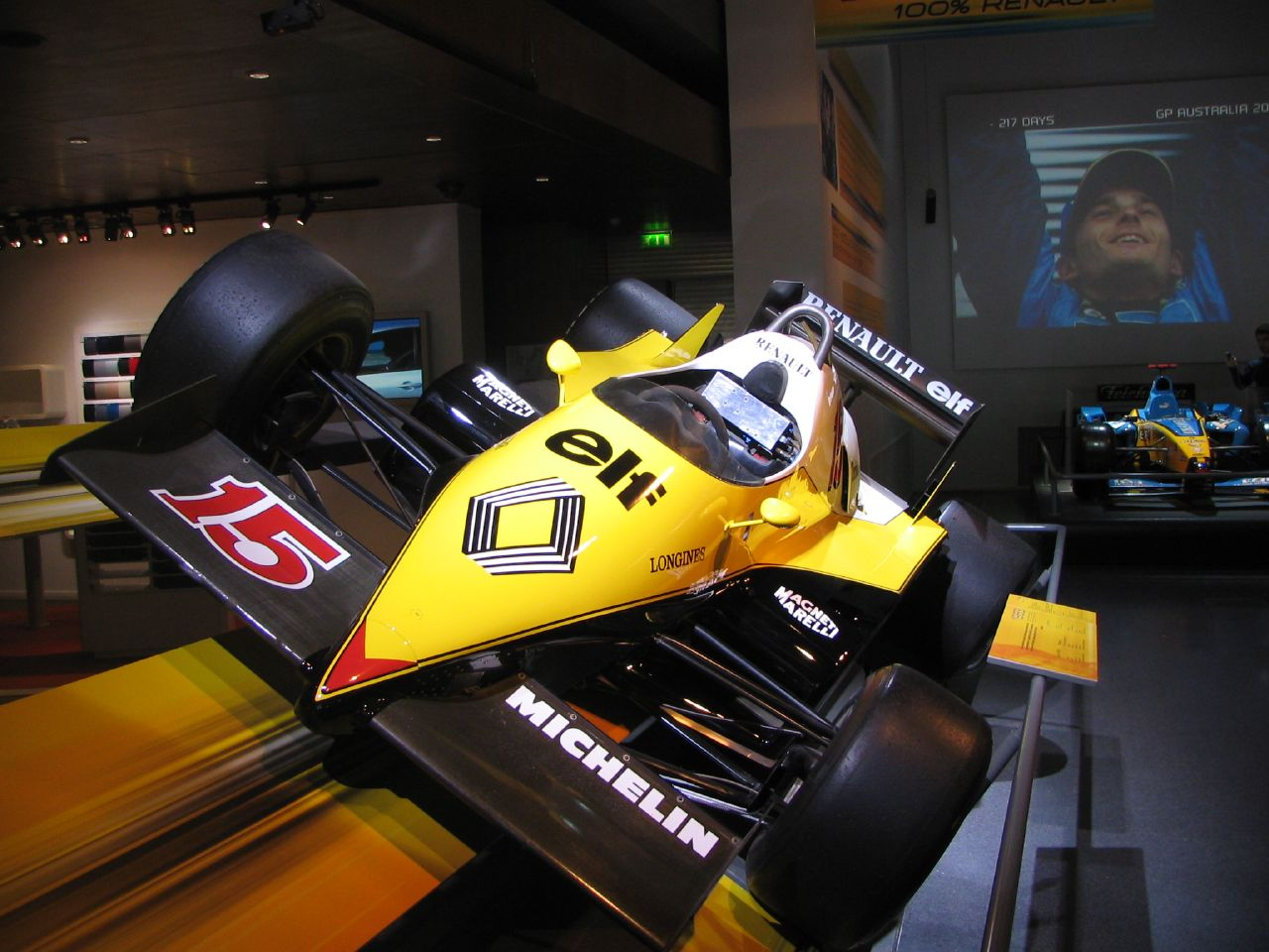 The Prost's Renault RE40 in exhibition